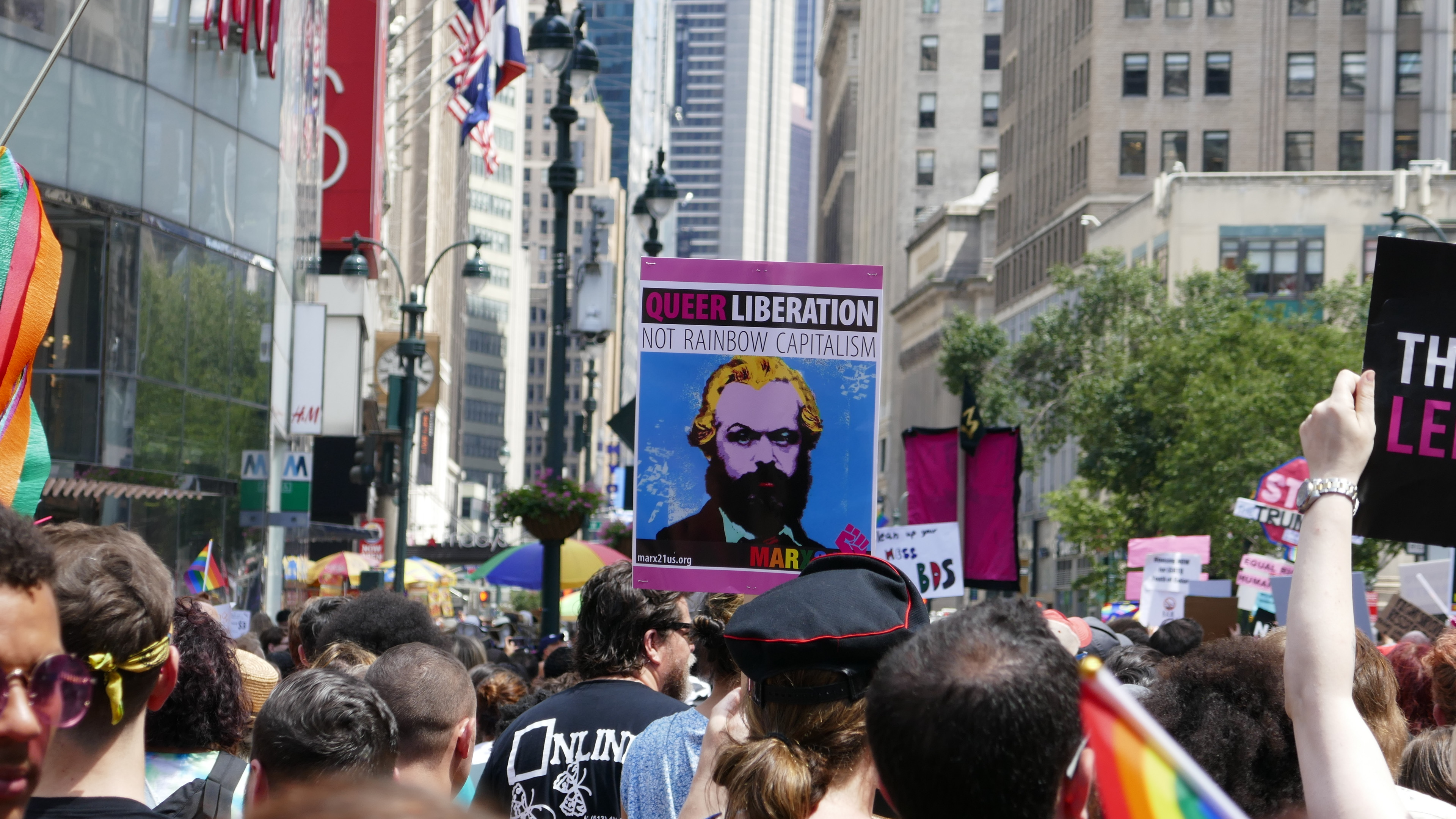 Queer Liberation, Not Rainbow Capitalism at the Queer Liberation March in New York City, June 30, 2019 #QueerLiberationMarch #Stonewall50 #WikiLovesPrideLocation: USA, New York CityEvent type: Queer Liberation MarchDate or year: 2019